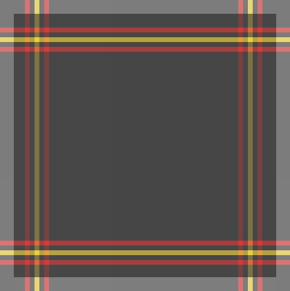 The Black County Tartan was designed by Philip Tibbetts of Halesowen in 2008 and is registered with the Scottish Register of Tartans (STA ref: 7844, STWR ref: 3278).